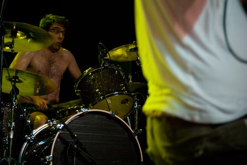 Brutal Truth, live at Hole In The Sky, Bergen Metal Fest 2007